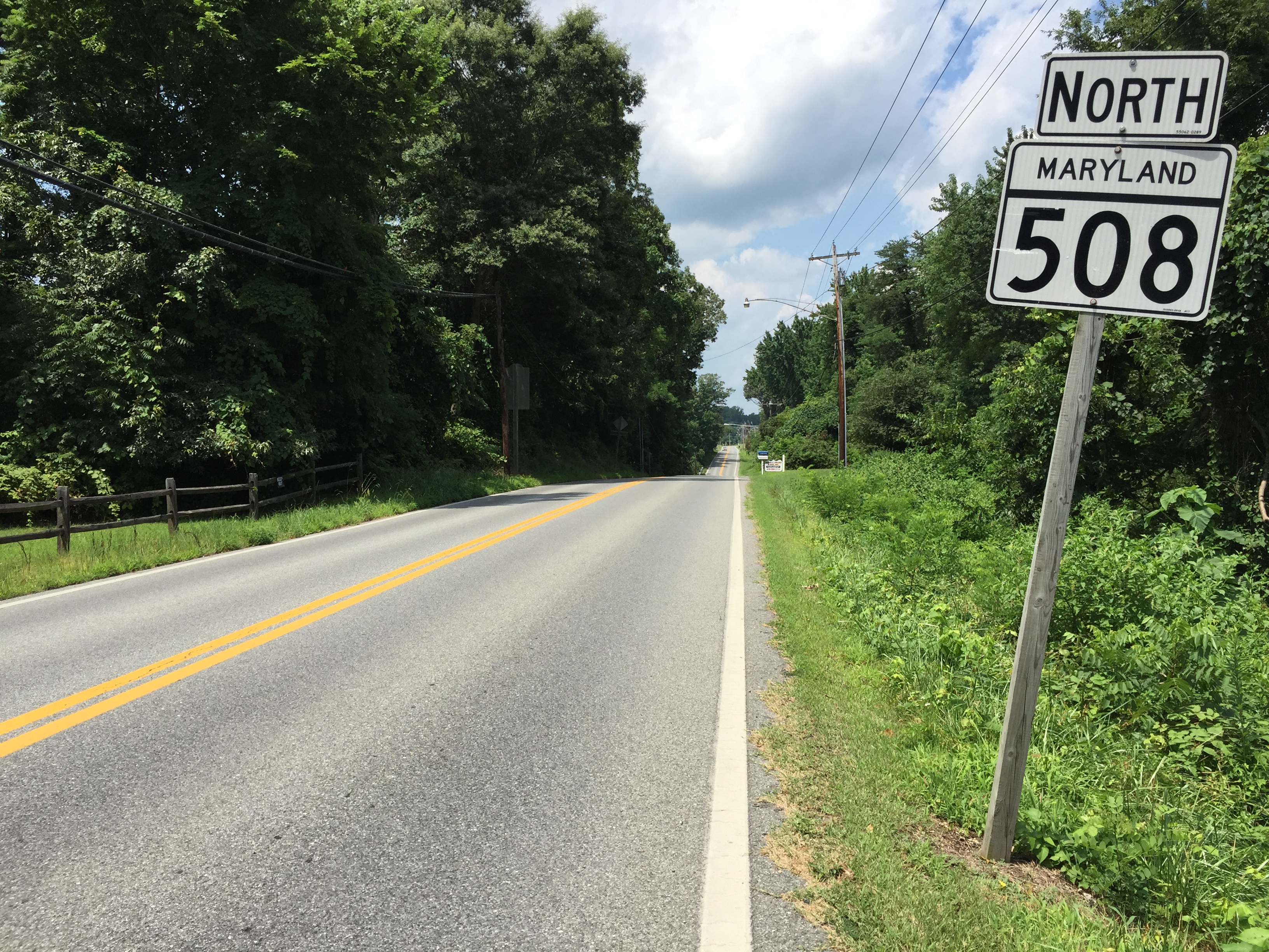 View north along Maryland State Route 508 (Adelina Road) just north of Maryland State Route 506 (Sixes Road) in Bowens, Calvert County, Maryland